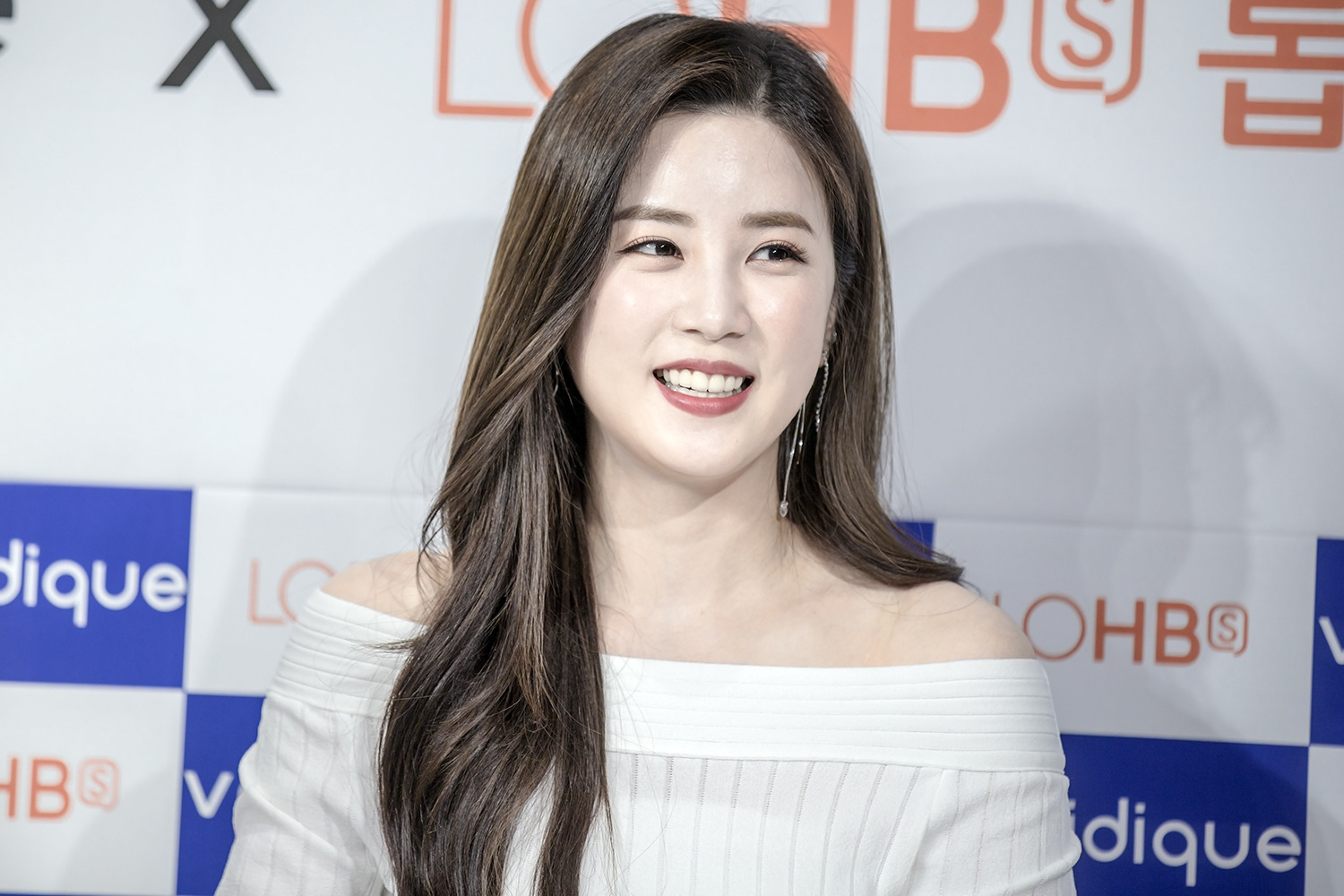 Park Cho-rong attends a Fan Sign for cosmetics brand Verdique.